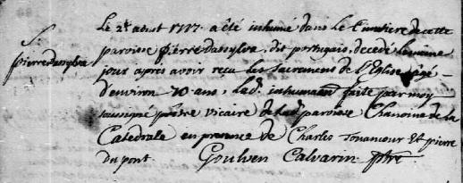 Burial record of Pedro da Silva (Dassylva), an early mail carrier (courier) in New France.